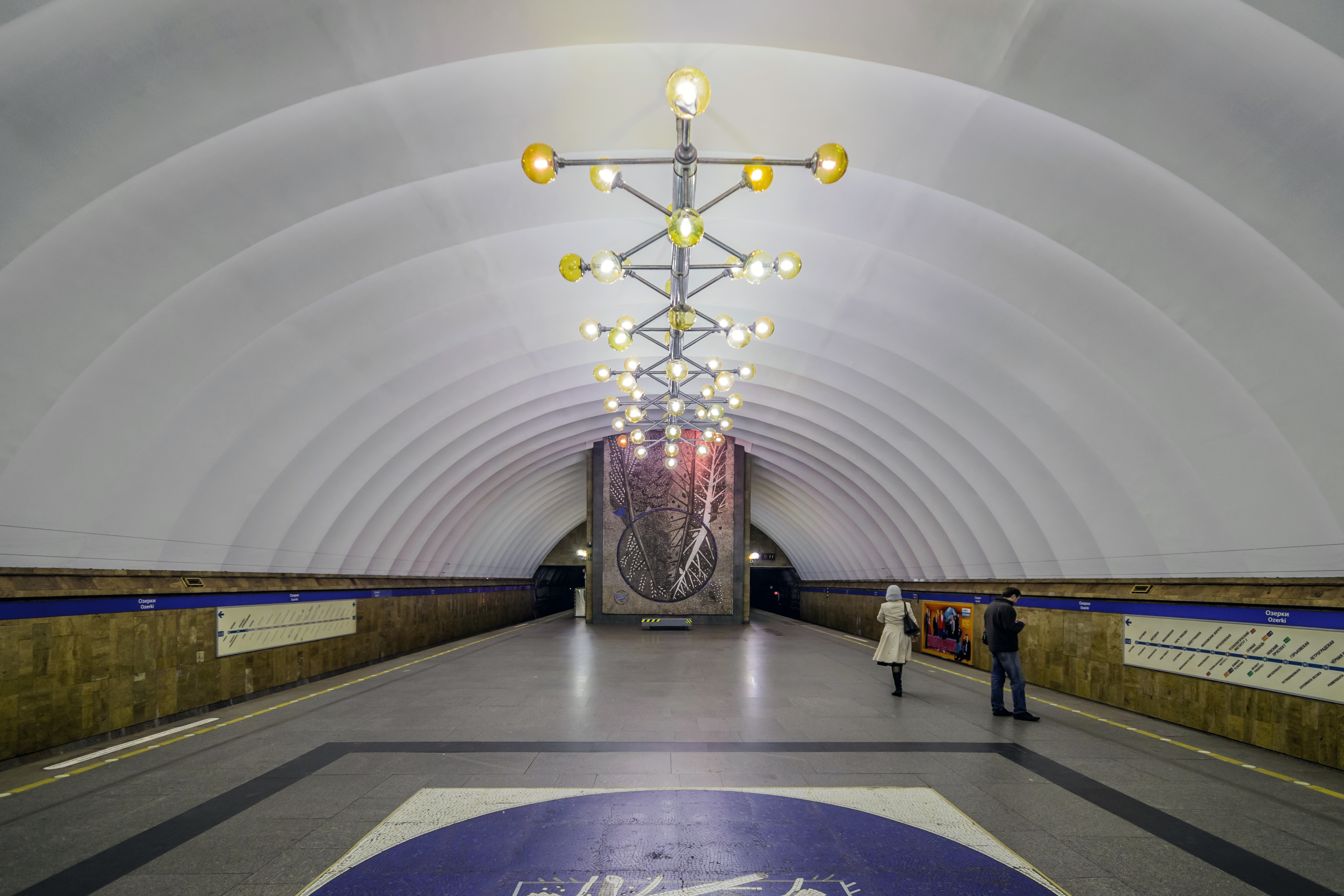 Ozerki station of Saint Petersburg Subway